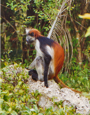 Piliocolobus kirkii (Zanzibar Red Colobus), These monkeys are unique to Zanzibar